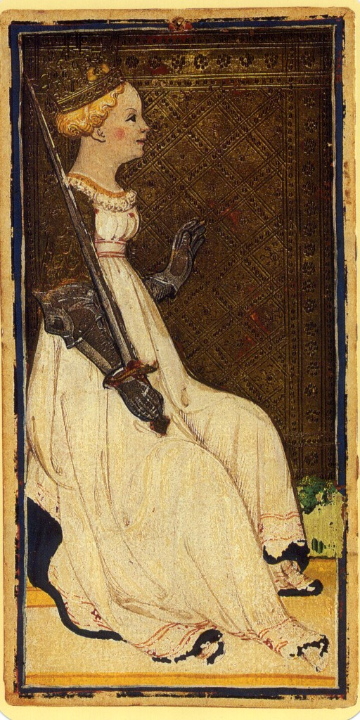 Queen of Swords in Visconti Sforza tarot deck, beautifully drawn in the mid XVth century by Italian artist Bonifacio Bembo for the Visconti and Sforza dukes of Milan. Four cards (out of seventy-eight) are lost from the deck (the fifteenth and sixteenth major arcana—respectively the Devil and the Tower—, the Knight of Coins, and the Three of Swords), thus seventy-four cards remain.